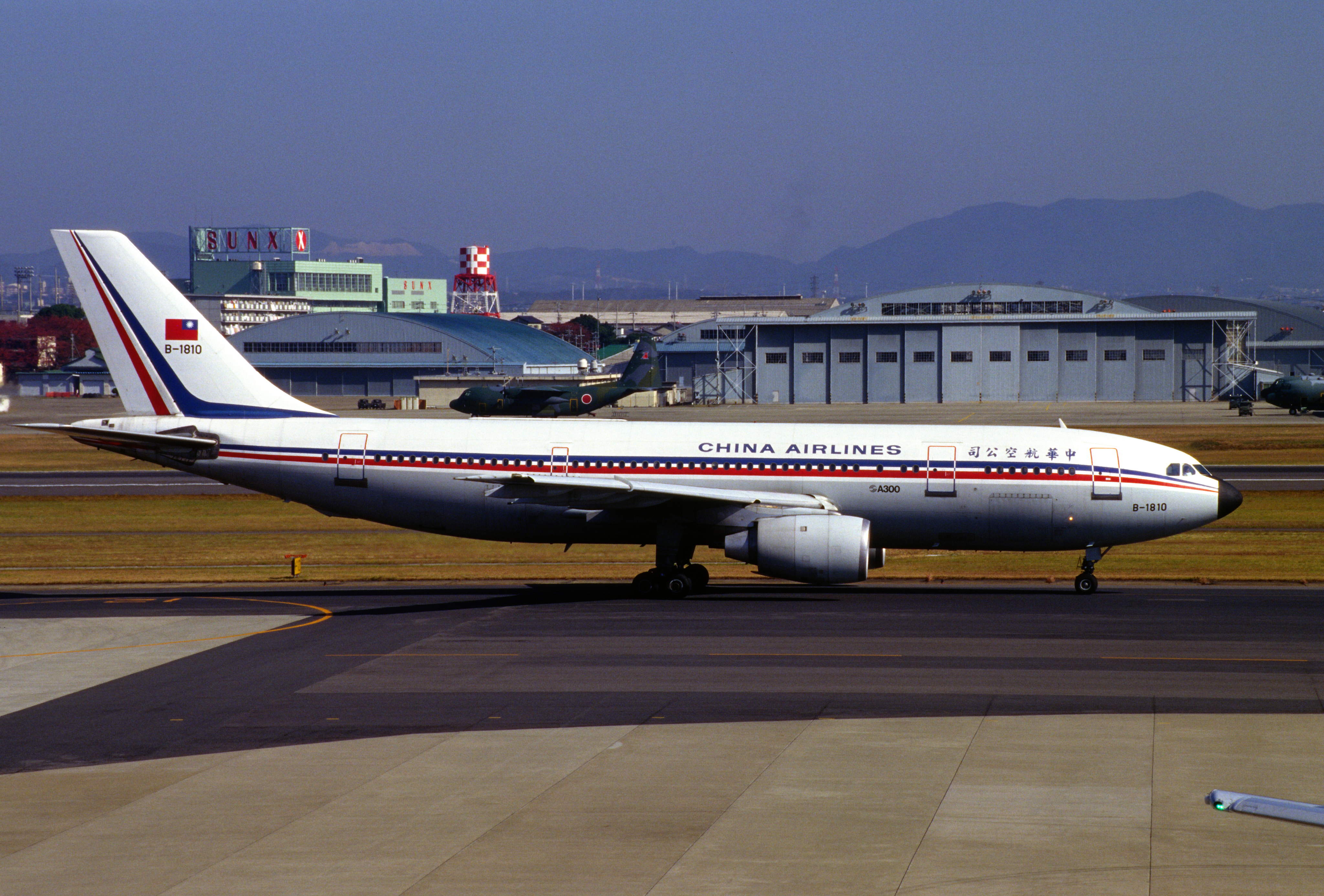 China Airlines Airbus A300B4-220 (B-1810-179).